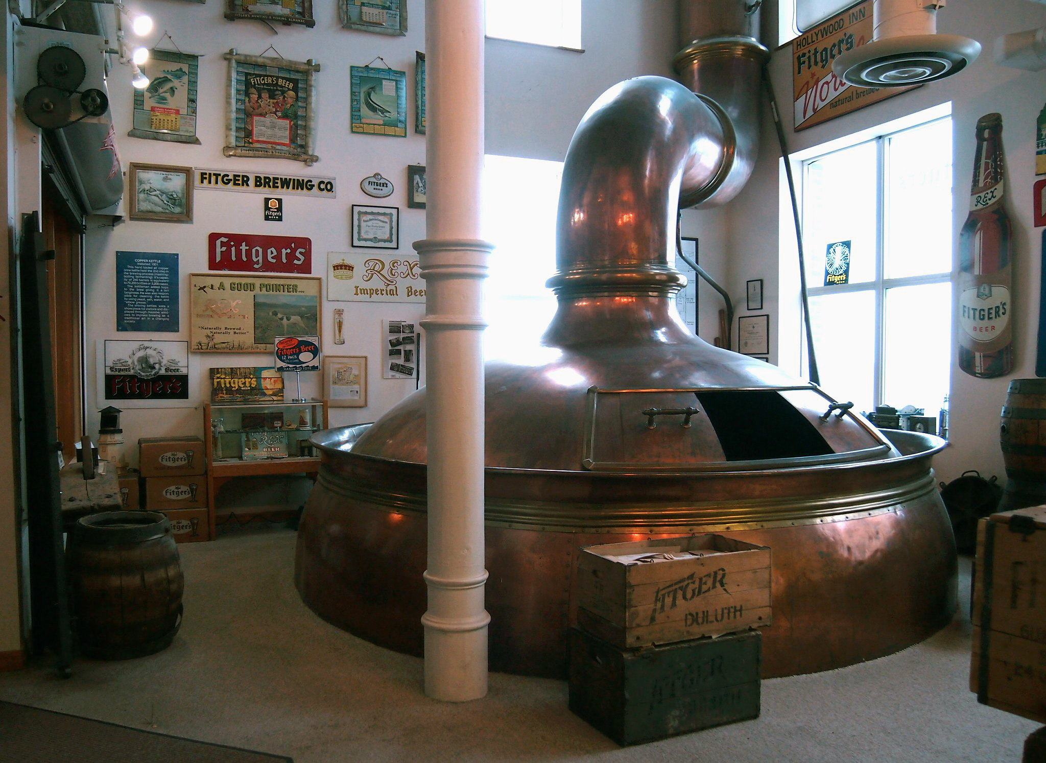 Fitger's Brewery Museum, Fitger's Brewery Complex, 600 E Superior St, Duluth, Minnesota, USA.